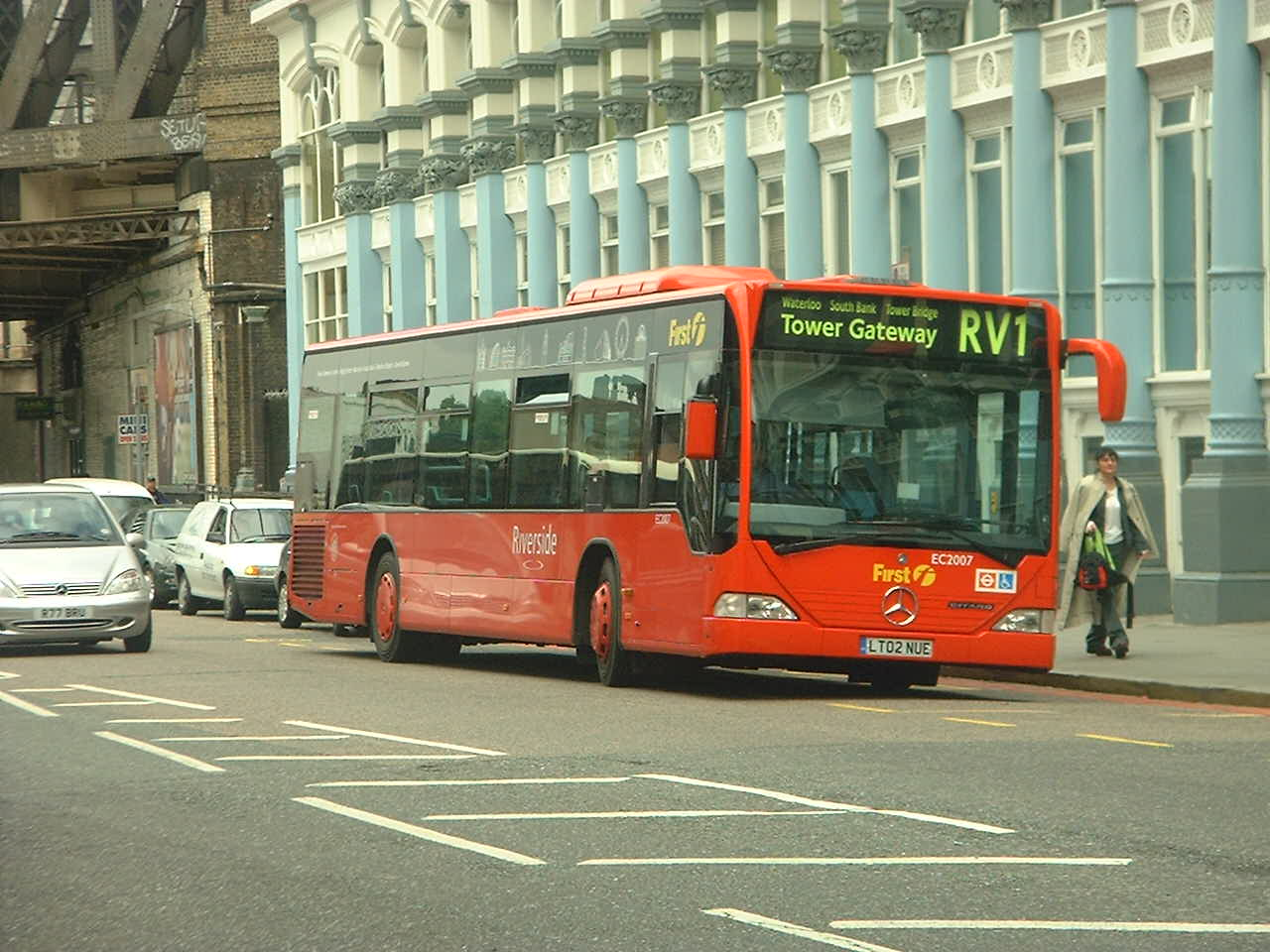 See where this photo was taken at maps.yuan.cc/.